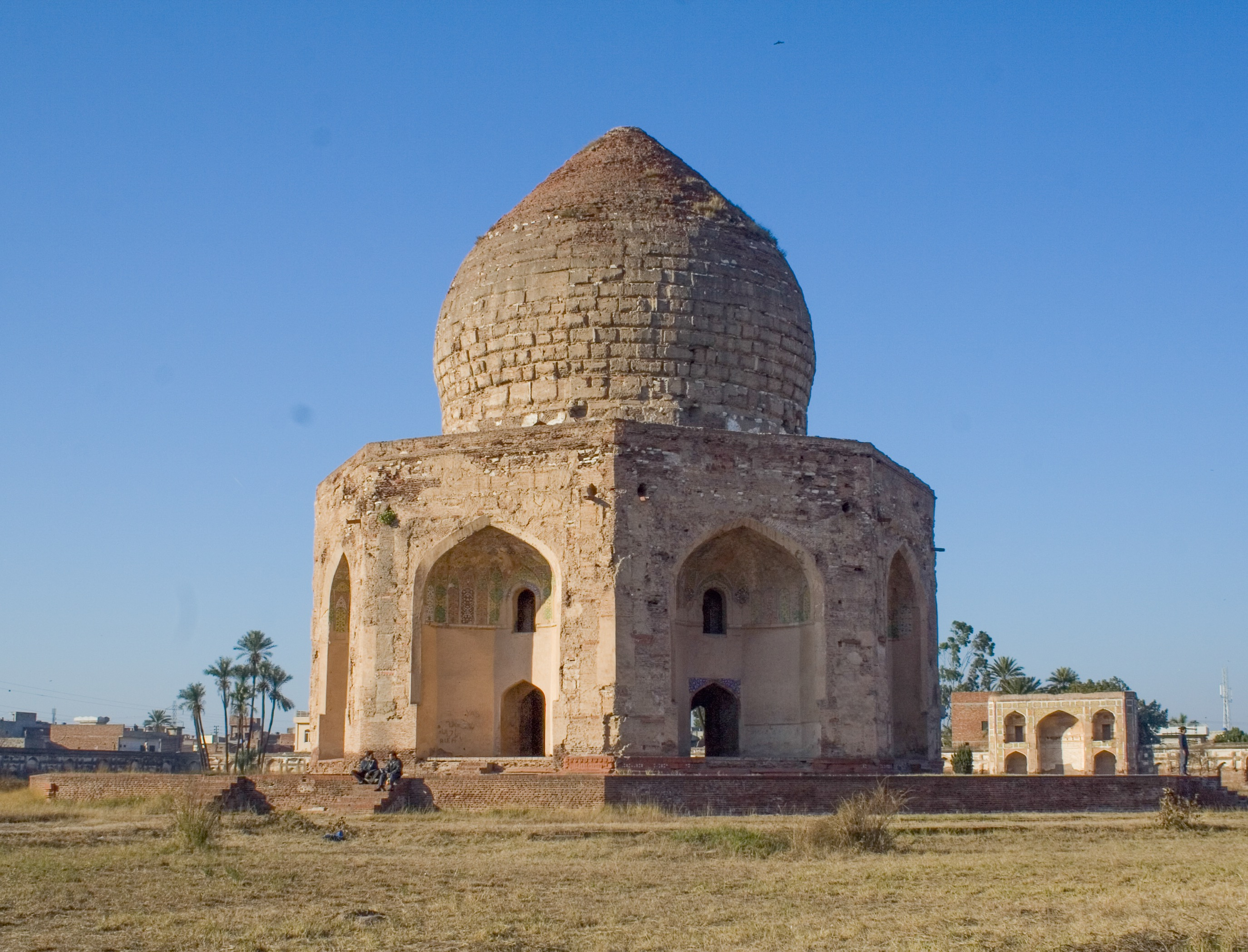 Tomb of Asif Khan This is a photo of a monument in Pakistan identified as the PB-43